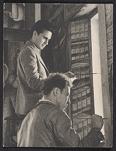 George Harris and Fred Olmstead working on Coit Tower mural, 1934, photo by Peter Stackpole, Archives of American Art, Smithsonian Institution